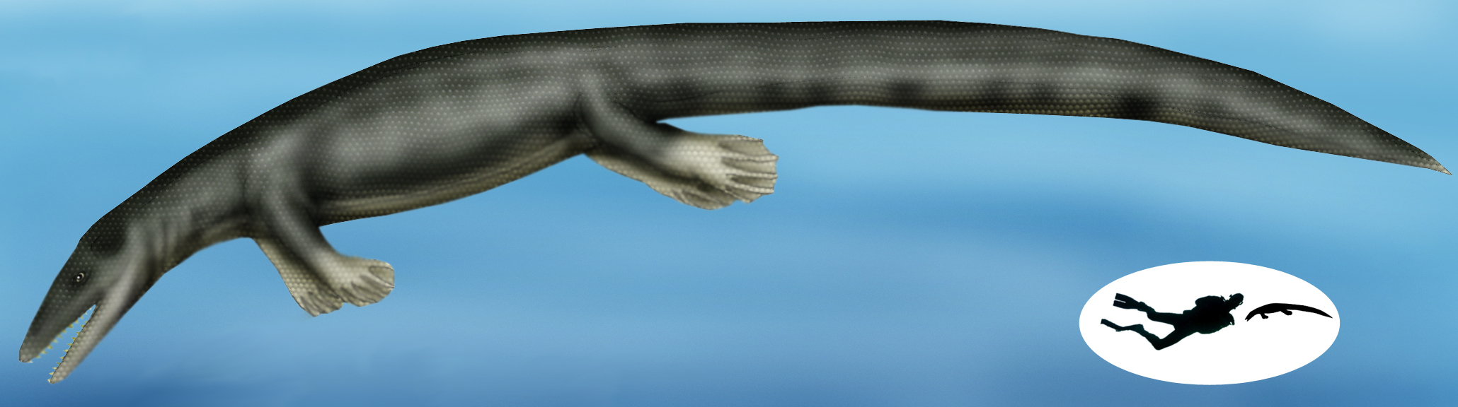 Aigialosauridae